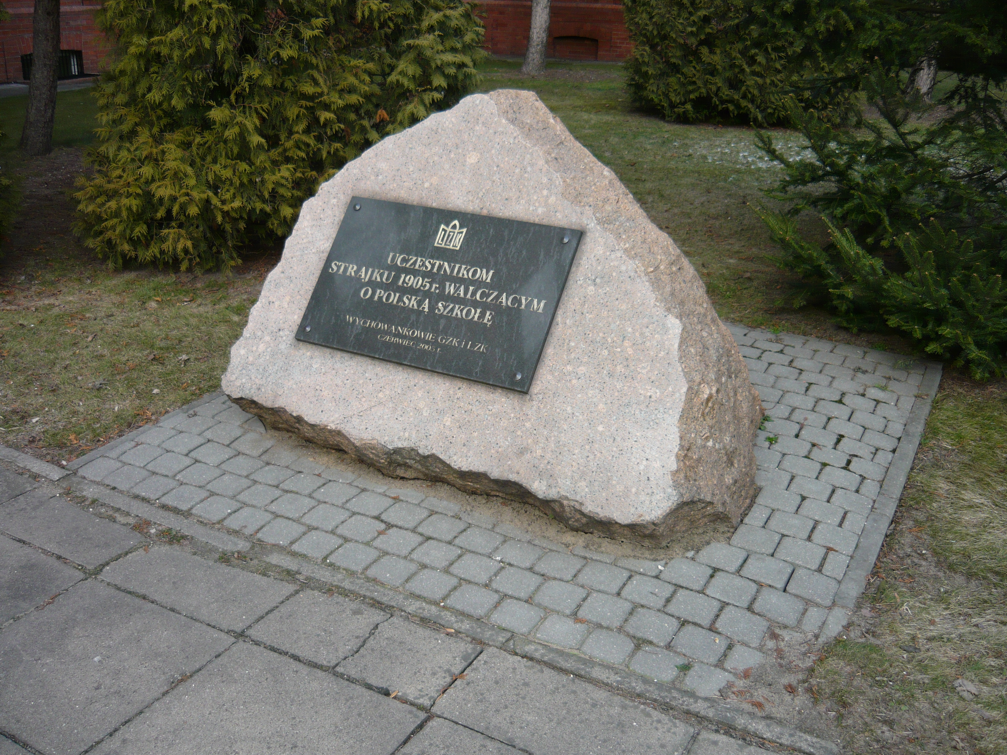 Stone-monument of participants of strike in 1905 for polish school.